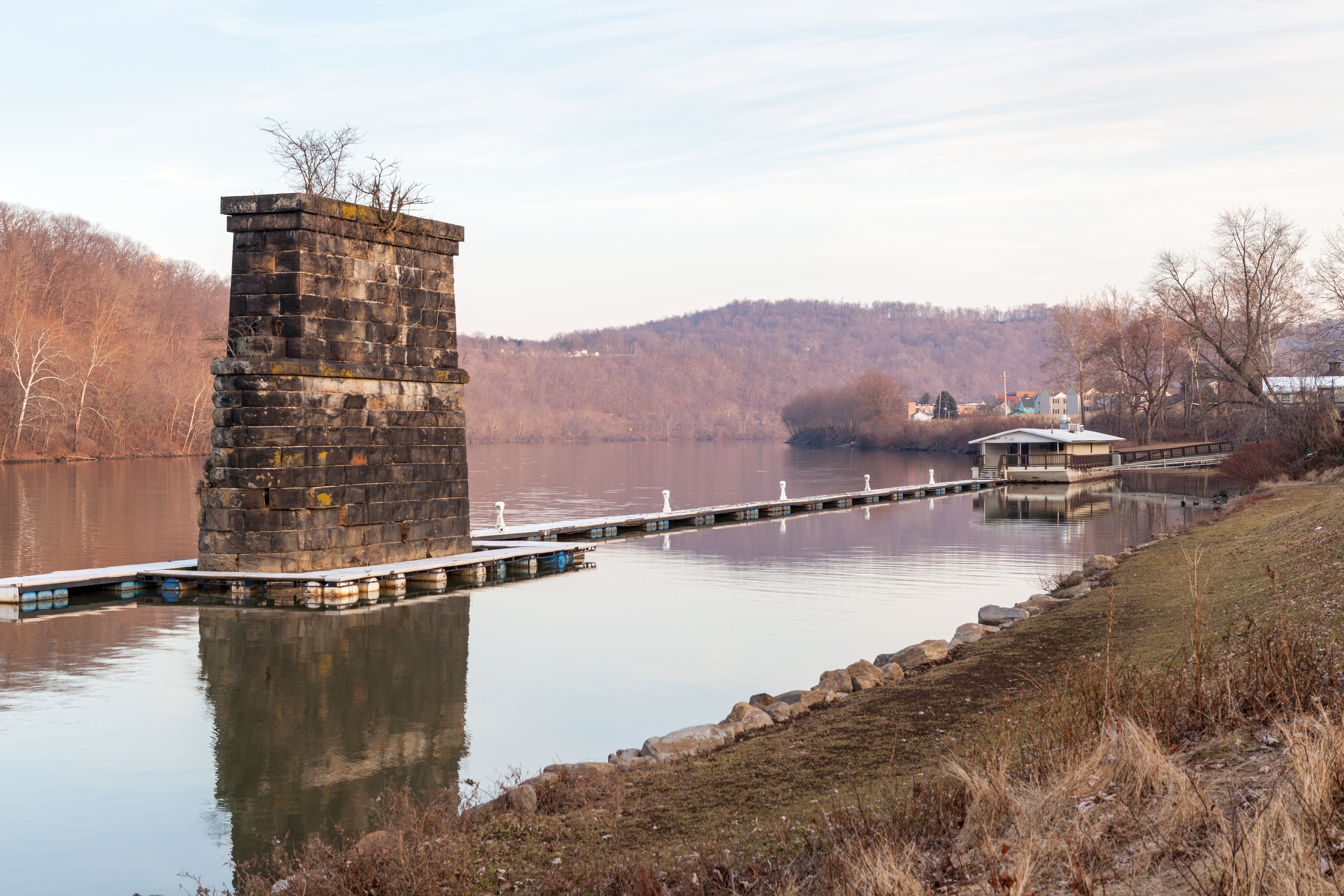 Dock on the Monongahela River in Coal Center, Pennsylvania. Looking east.